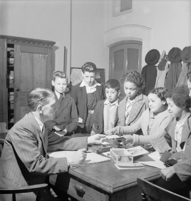 Muslim Community- Everyday Life in Butetown, Cardiff, Wales, UK, 1943 At the local school in Butetown, headmaster Mr. Spinks collects Savings Group contributions from children. According to the original caption, the Group is flourishing and collects about �GBP5 per week from 40% of the students.